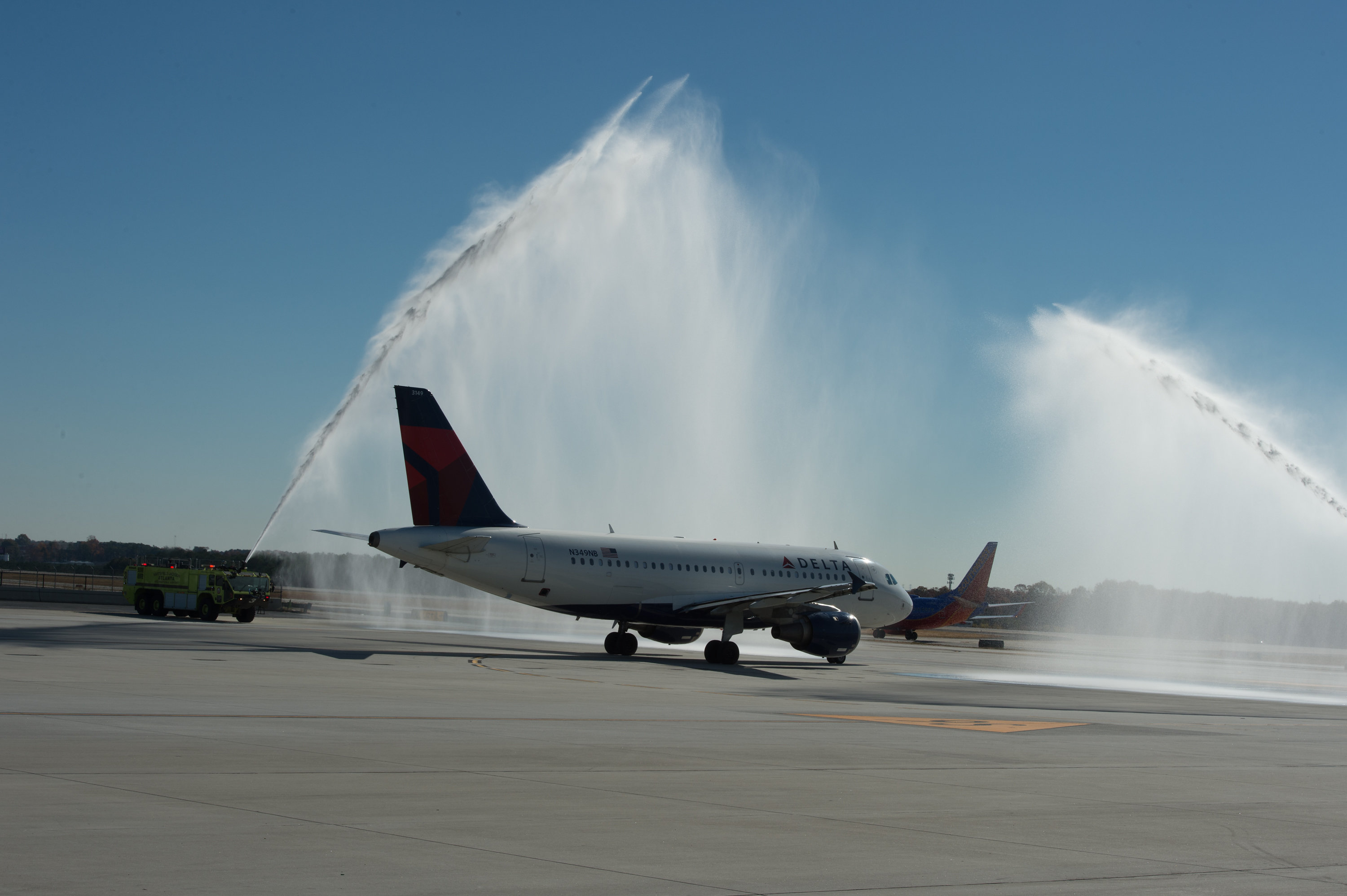 Delta returns to Cuba after 55-year hiatus